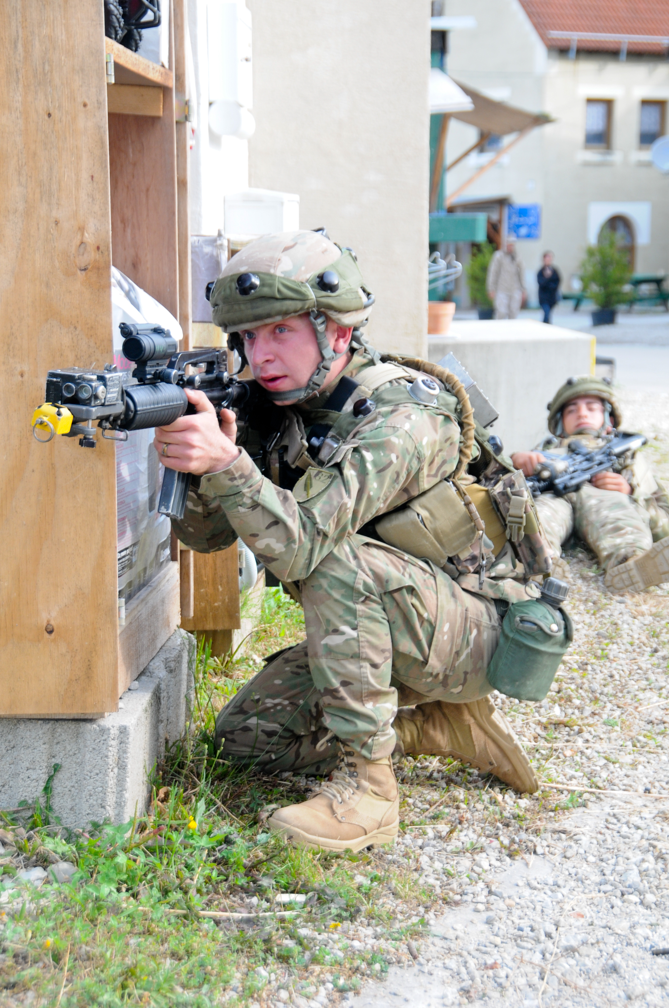 A Georgian soldier with the 32nd Infantry Battalion aims his M4 carbine during a mission rehearsal exercise at the Joint Multinational Readiness Center in Hohenfels, Germany, Aug. 5, 2012. The purpose of the exercise was to prepare units for deployment to Afghanistan.